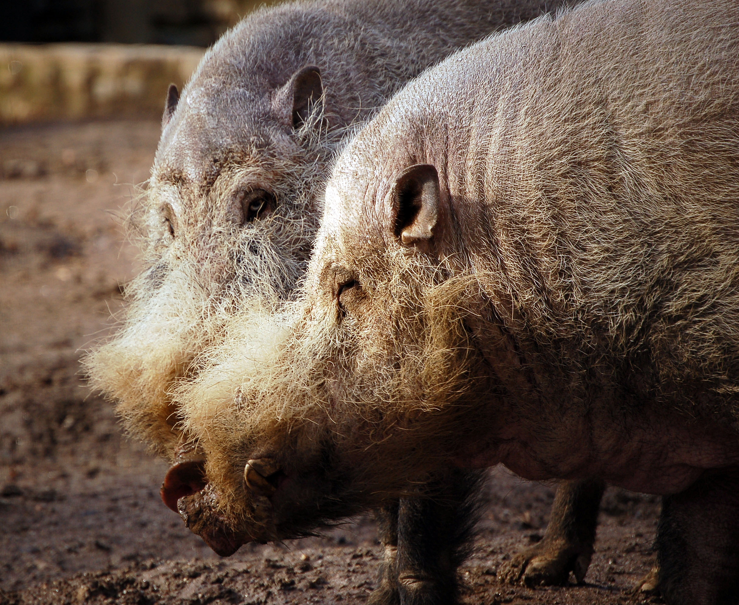 The Bearded Pig or Bornean Bearded Pig (Sus barbatus) is a species of pig. It can be recognized by its prominent beard. It also sometimes has tassels on its tail. It is primarily found in Southeast Asia—Sumatra, Borneo, the eastern Philippines—where it inhabits rainforests and mangrove forests. The Bearded Pig lives in a family. It can reproduce from the age of 18 months, and can be cross-bred with other species in the family Suidae. There are about 25 members of this species in U.S zoos. The San Diego Zoo was the first zoo in the Western Hemisphere to breed them. The London Zoo is the only U.K zoo to currently house the species.[citation needed] [edit]